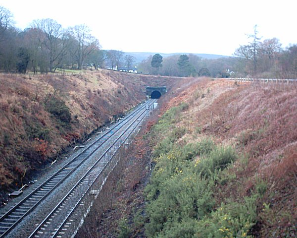 Totley Tunnel's Eastern portal in winter 2003-2004.